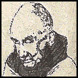 Sketch by myself with effects applied.